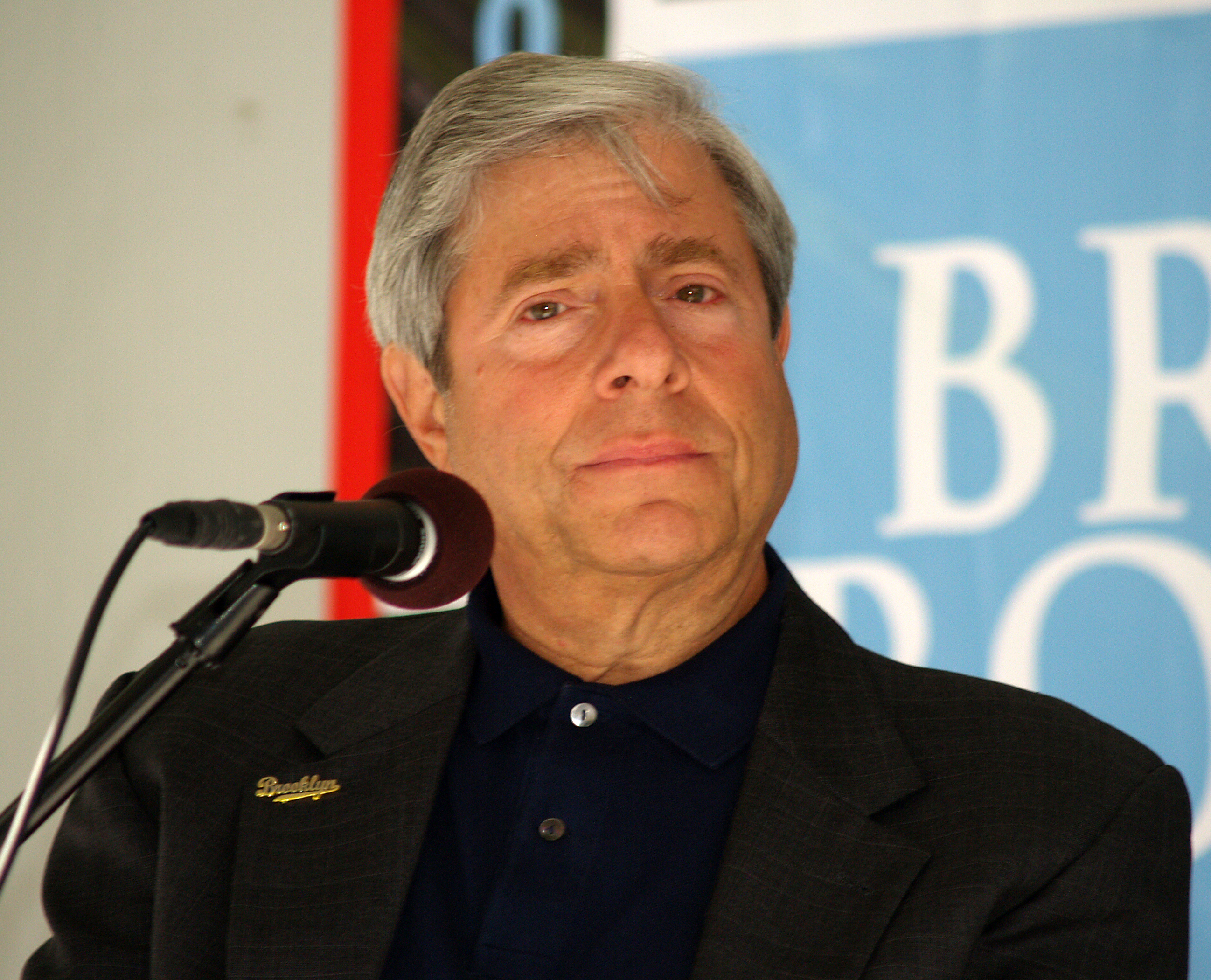 Brooklyn Borough President Marty Markowitz